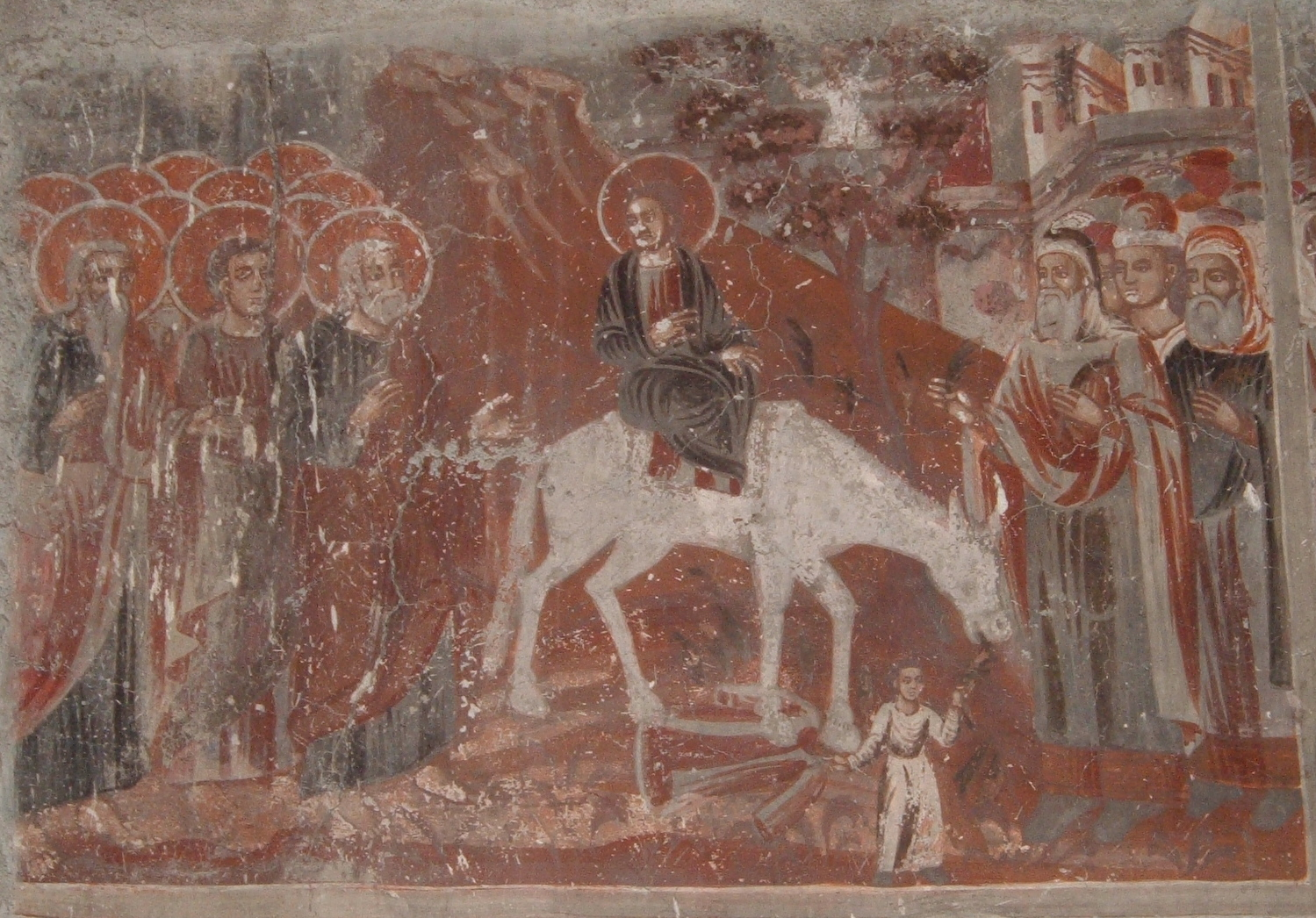 Fotini Saint Minas Church Fresco